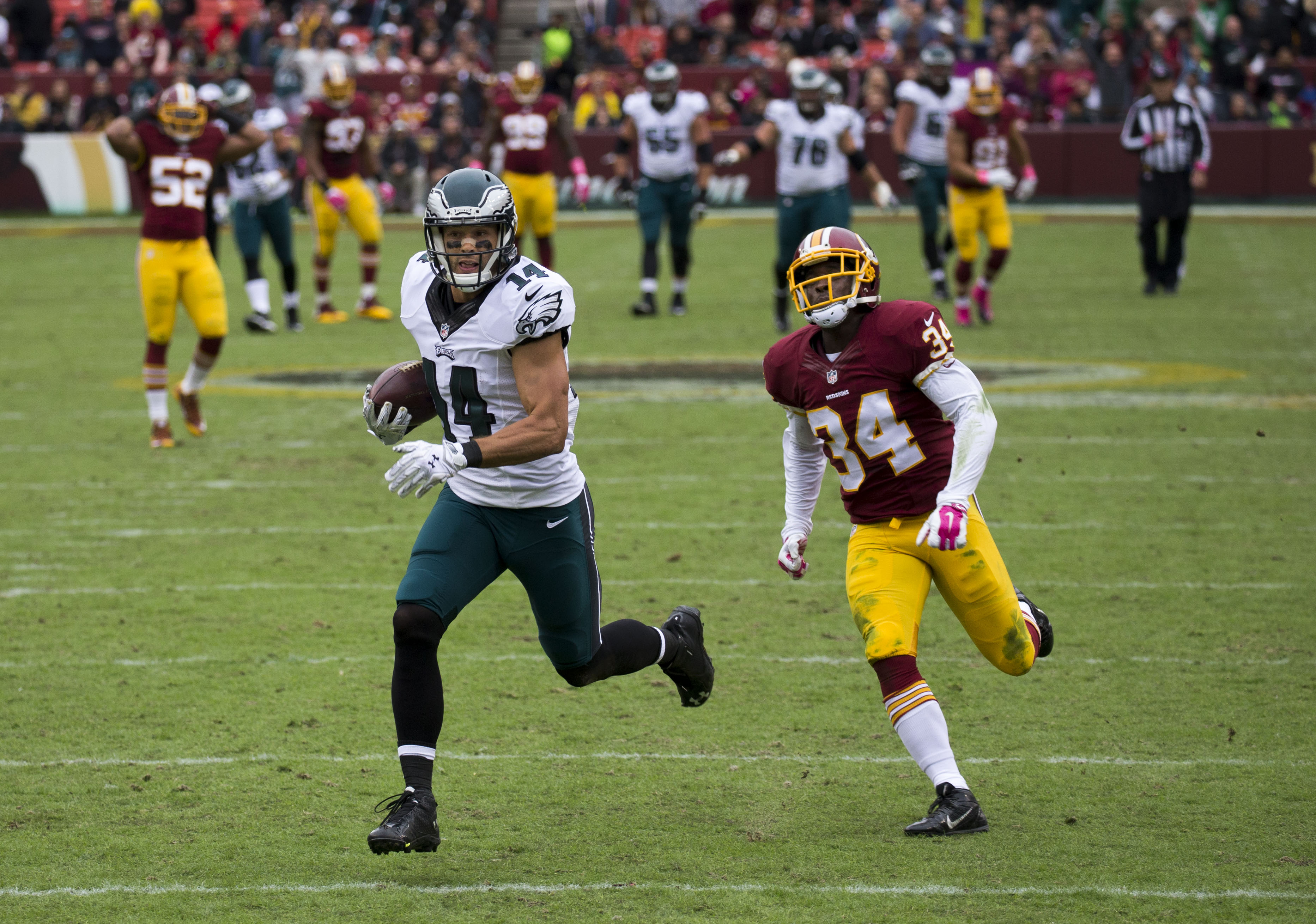 Riley Cooper playing against the Washington Redskins on October 4th, 2015.